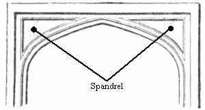 Illustration of Spandrels concept